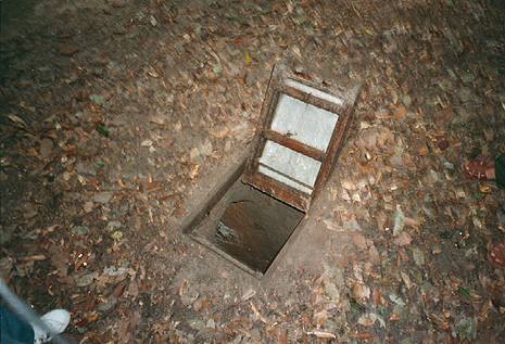 An open trap door leading into the Cu Chi Tunnels in Vietnam. When closed, the trap door is camouflaged and invisible.